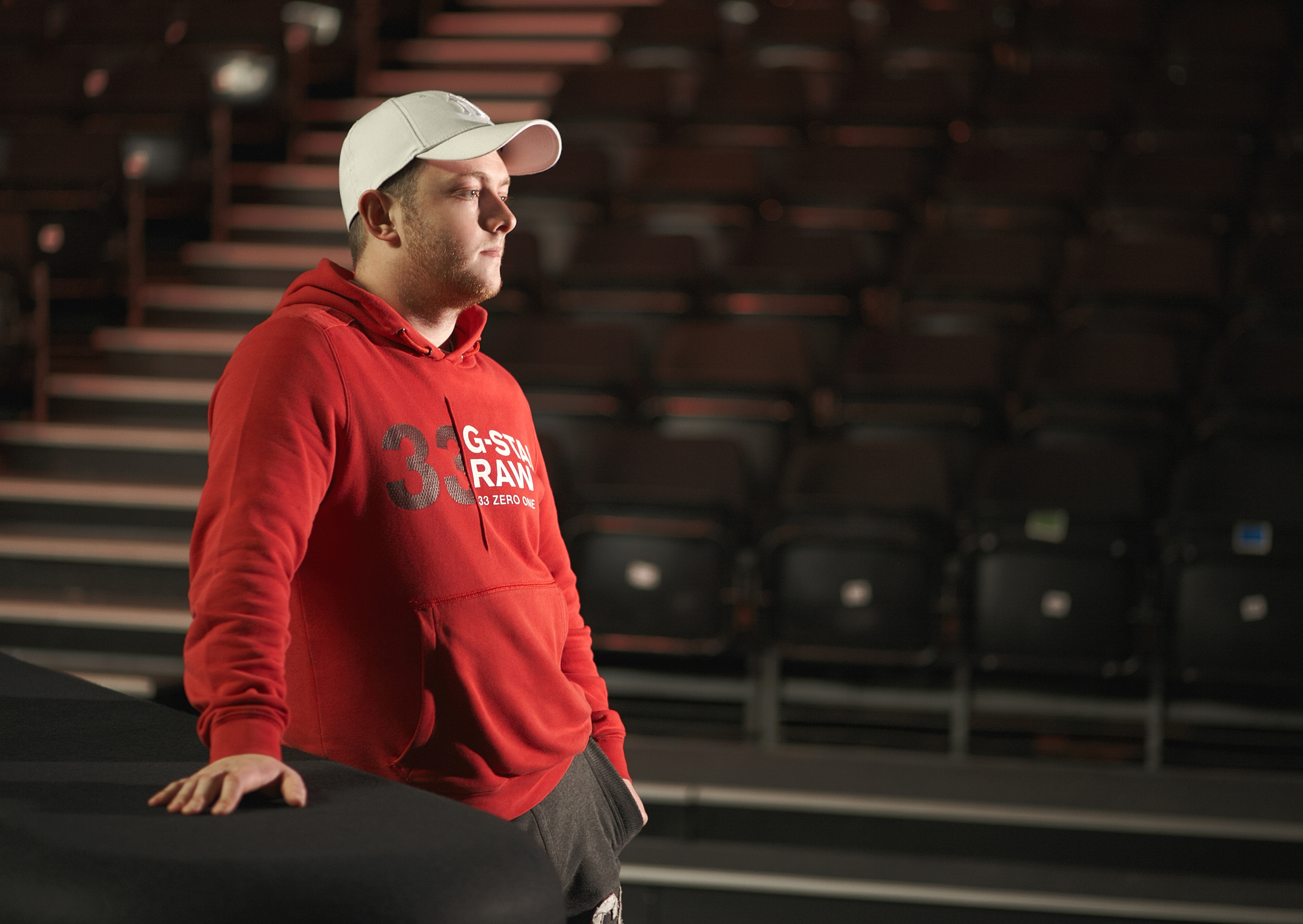 Snooker player Mark Allen during Masters 2012 in London.